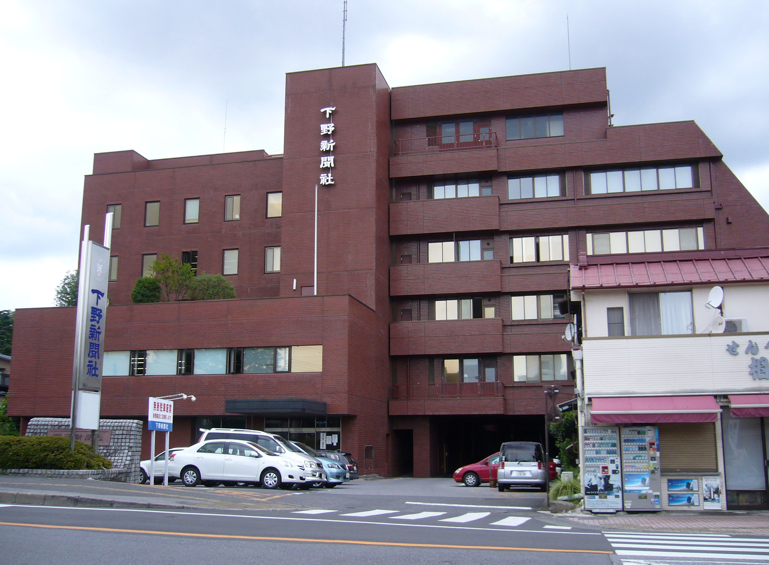 Shimotsuke Shinbunsha (Japanese newspaper publishing company)